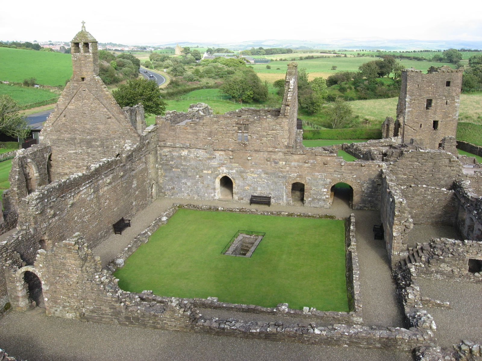 Crossraguel Abbey ruins as seen from the Tower.